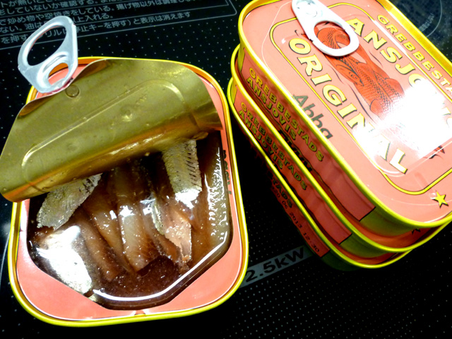 Canned Scandinavian anchovies